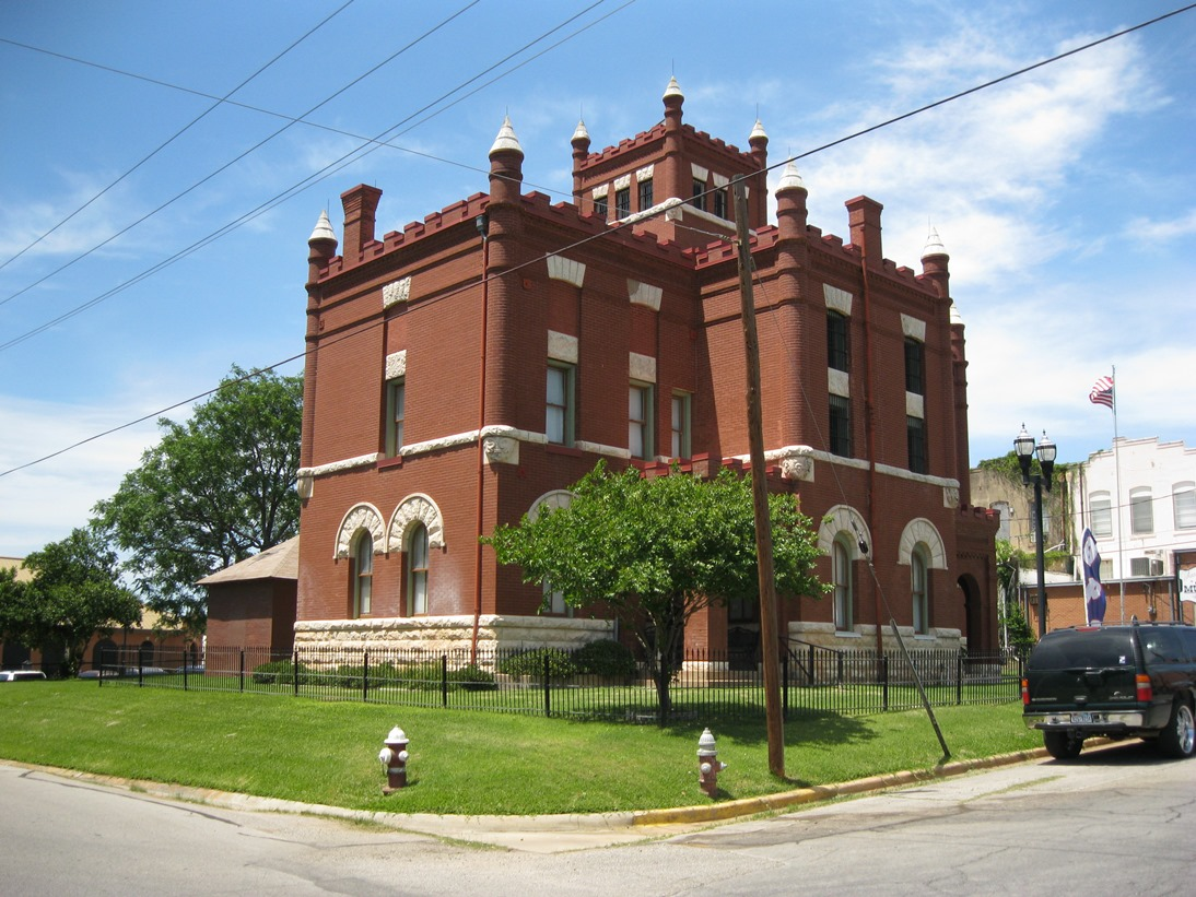 Photo shows the old jail in Bellville, Texas which is now a museum. The picture was taken from the corner of Bell and Luhn streets. View is toward the north.